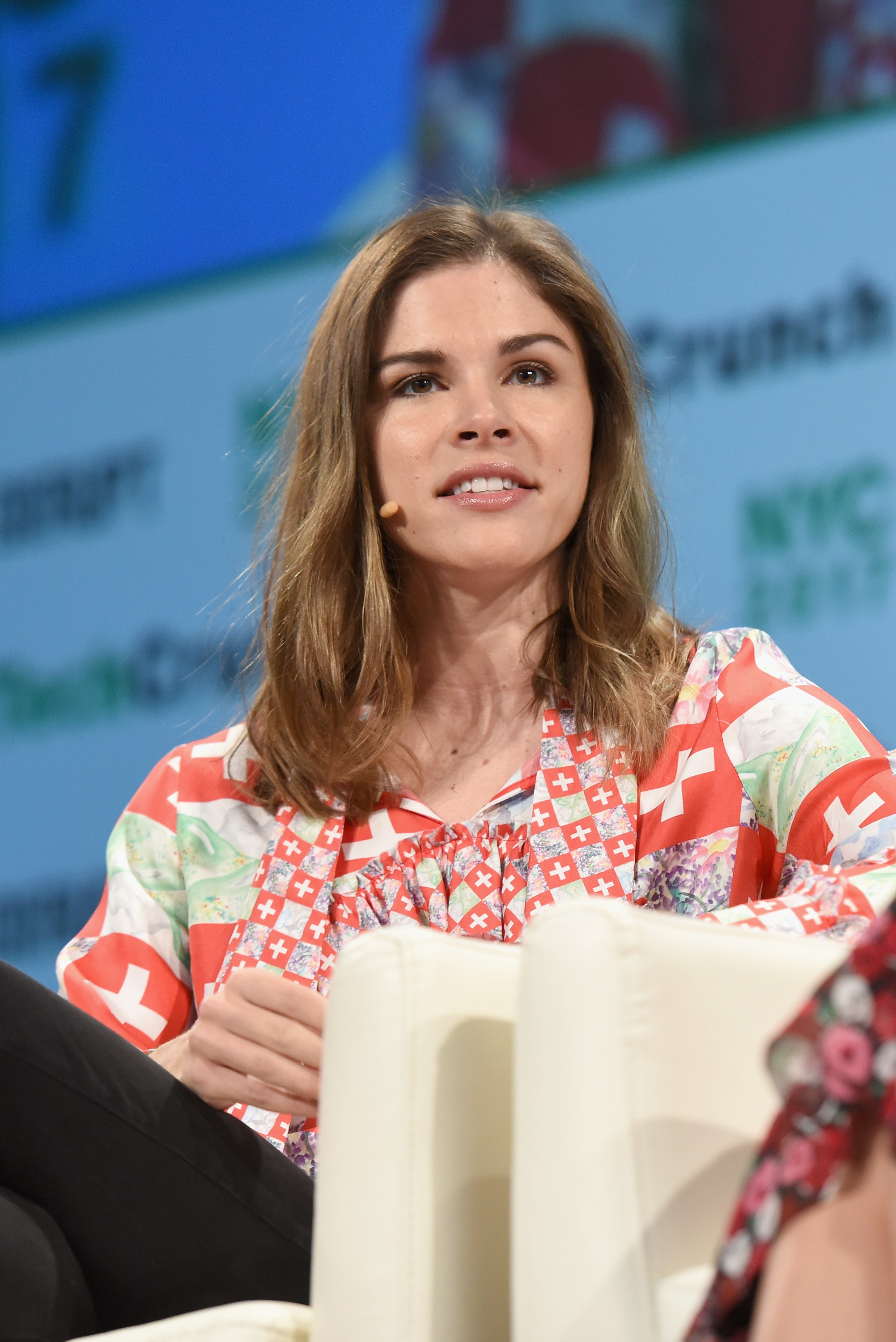 Founder and CEO of Glossier Emily Weiss speaks onstage during TechCrunch Disrupt NY 2017 at Pier 36 on May 15, 2017 in New York City.